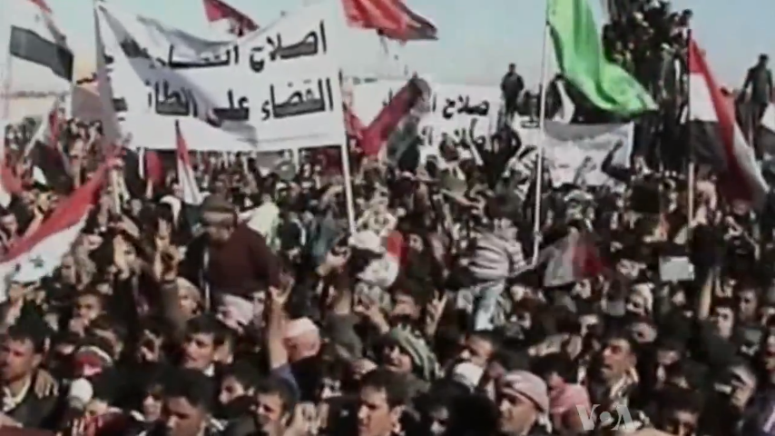 Iraqi Sunni demonstrators protesting against the Maliki led government.